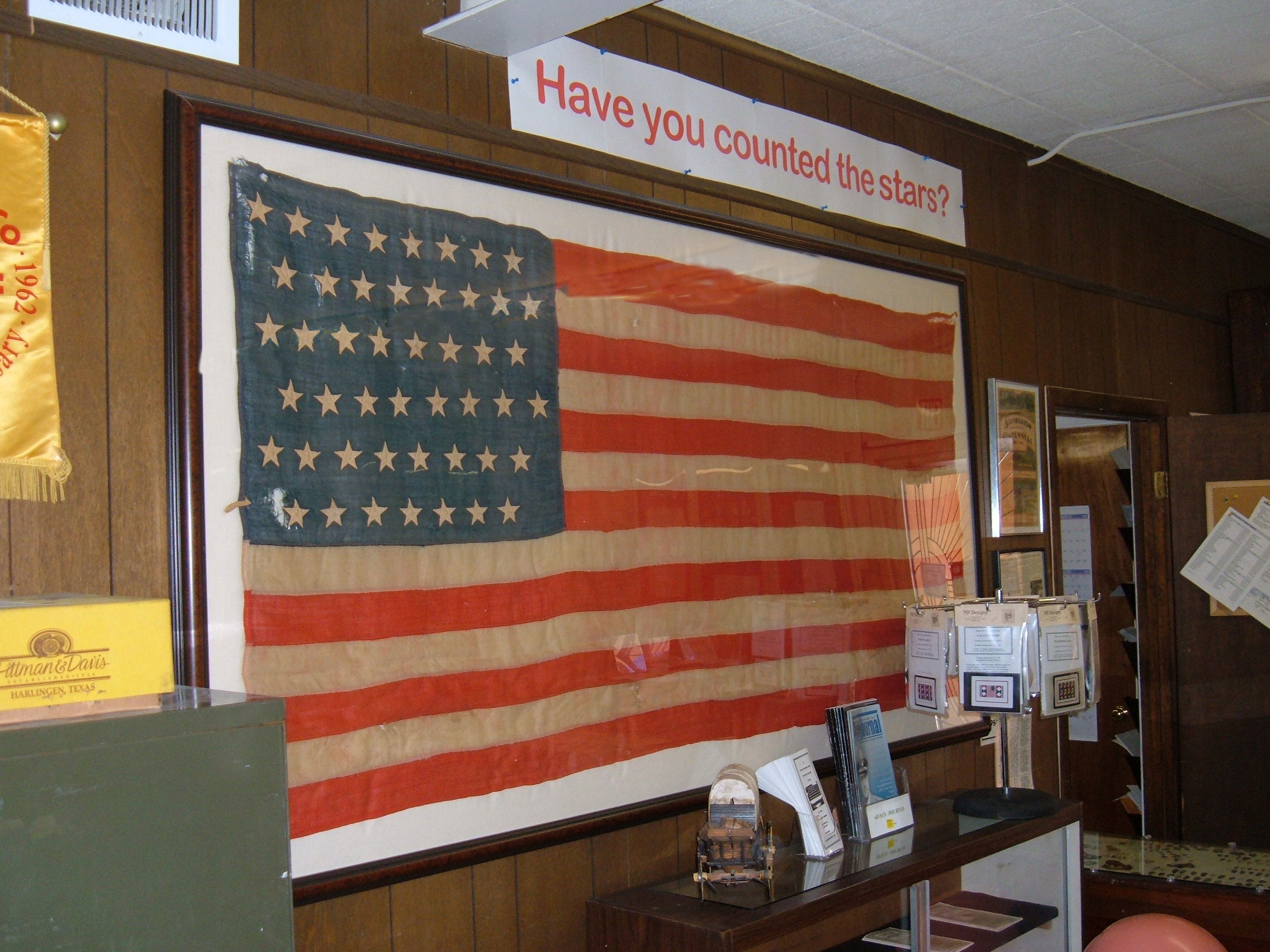 Forty-seven star US flag at the Alamogordo Museum of History, Alamogordo, New Mexico. New Mexico was the 47th state to enter the union, entering on January 6, 1912; there were briefly 47-star flags until February 14, 1912, when Arizona was admitted.